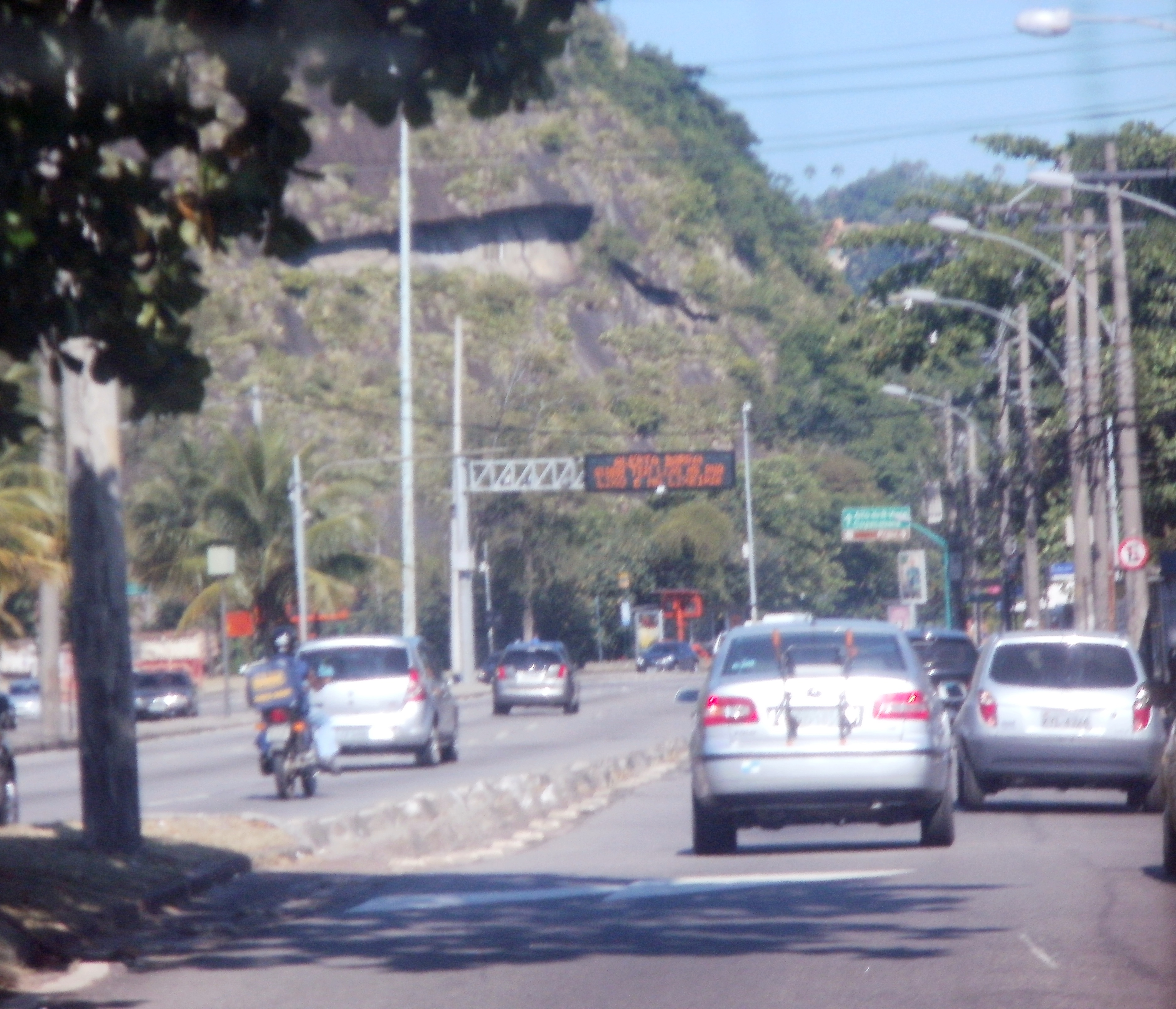 Armando Lombardi Avenue, in Barra da Tijuca, Rio de Janeiro city, Brazil.